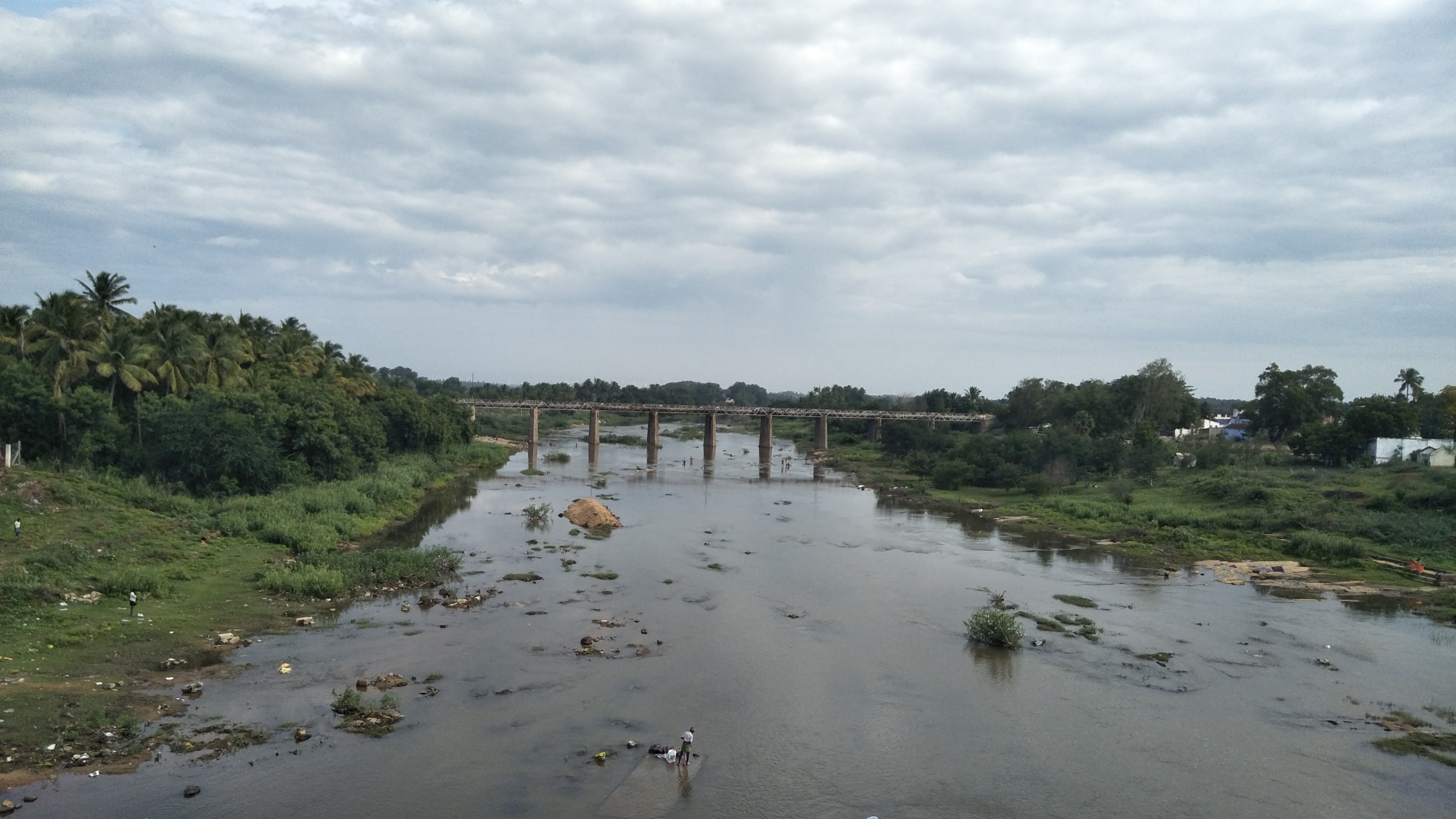 Amaravathi